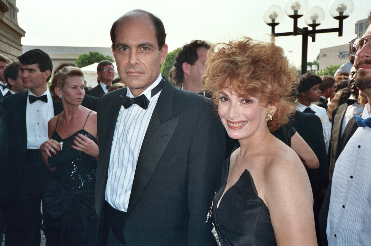 1988 Emmy Awards NOTE: Permission granted to copy, publish, broadcast or post any of my photos, but please credit "photo by Alan Light" if you can. Thanks. Scanned from the original 35MM film negative.